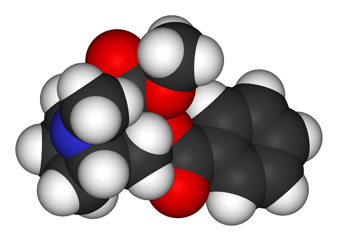 Space-filling model of the cocaine molecule.